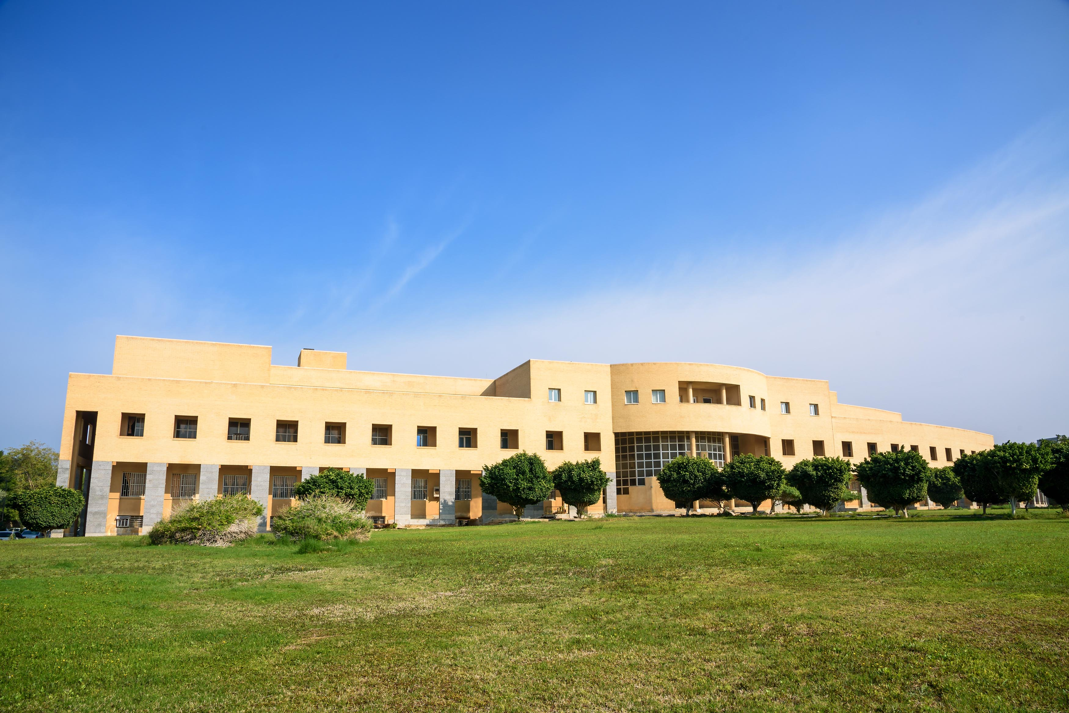 The Faculty of Humanities at Persian gulf university